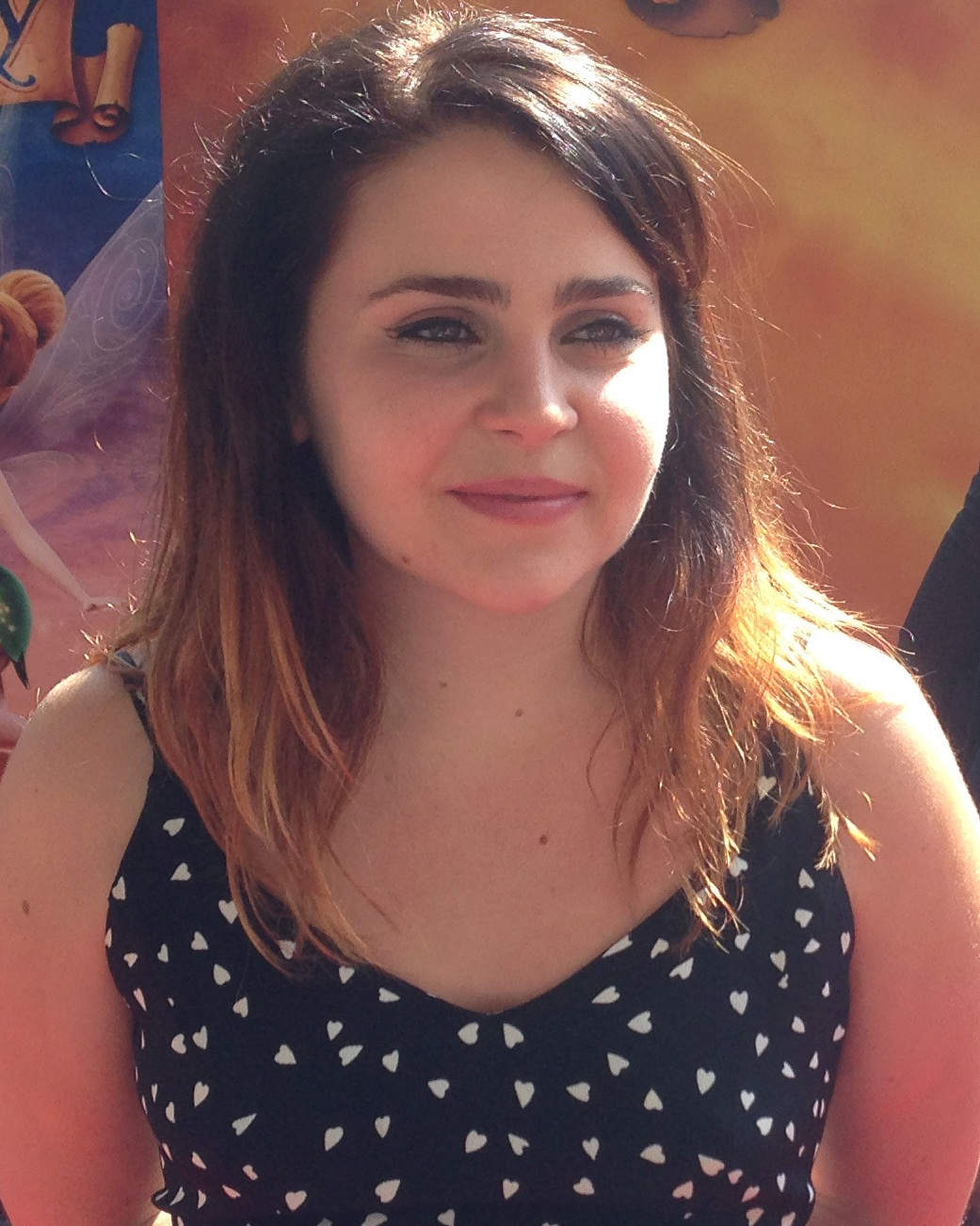 Mae Whitman at the premiere of DisneyToon Studios animated adventure “The Pirate Fairy" on March 22, 2014